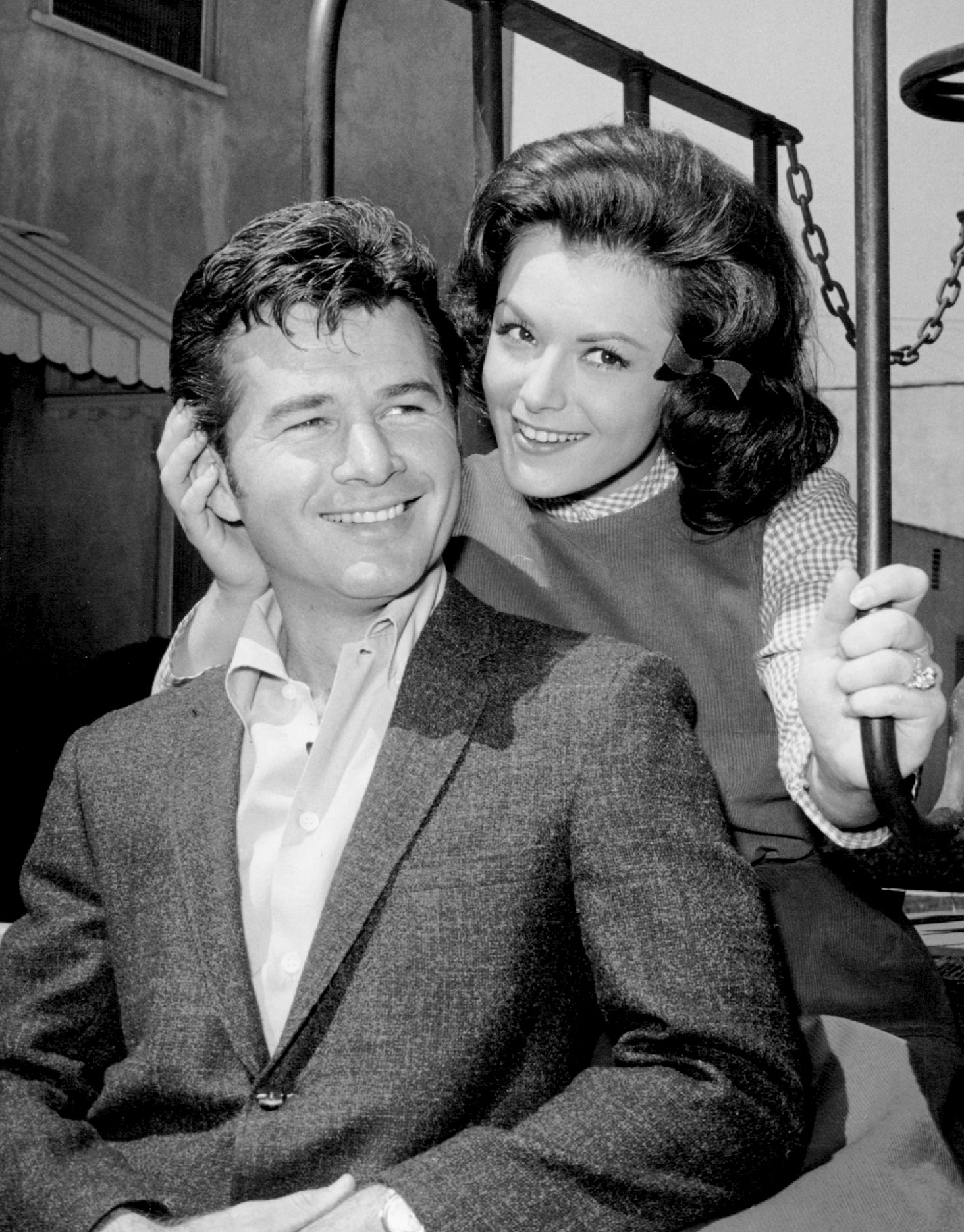 Photo of actor Gary Clarke and actress Pat Woodell, Woodell was married to Clarke at one time.